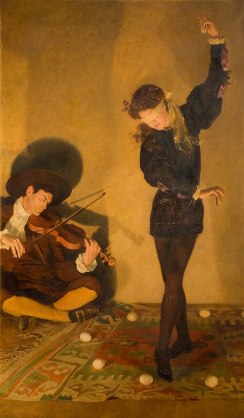 From The New Art Gallery Walsall website: "An egg dance is an ancient, traditional Easter game in which eggs are laid on the ground and danced around. The goal is to dance among them damaging as few as possible. The egg was traditionally a symbol of rebirth in Pagen celebrations of Spring. It was adopted by early Christians as a symbol of the rebirth of man at Easter. Performers would dance blindfold to popular tunes such as ‘The Hornpipe’ with complex footwork which forced the dancer to pass backwards and forwards between the eggs at great speed."